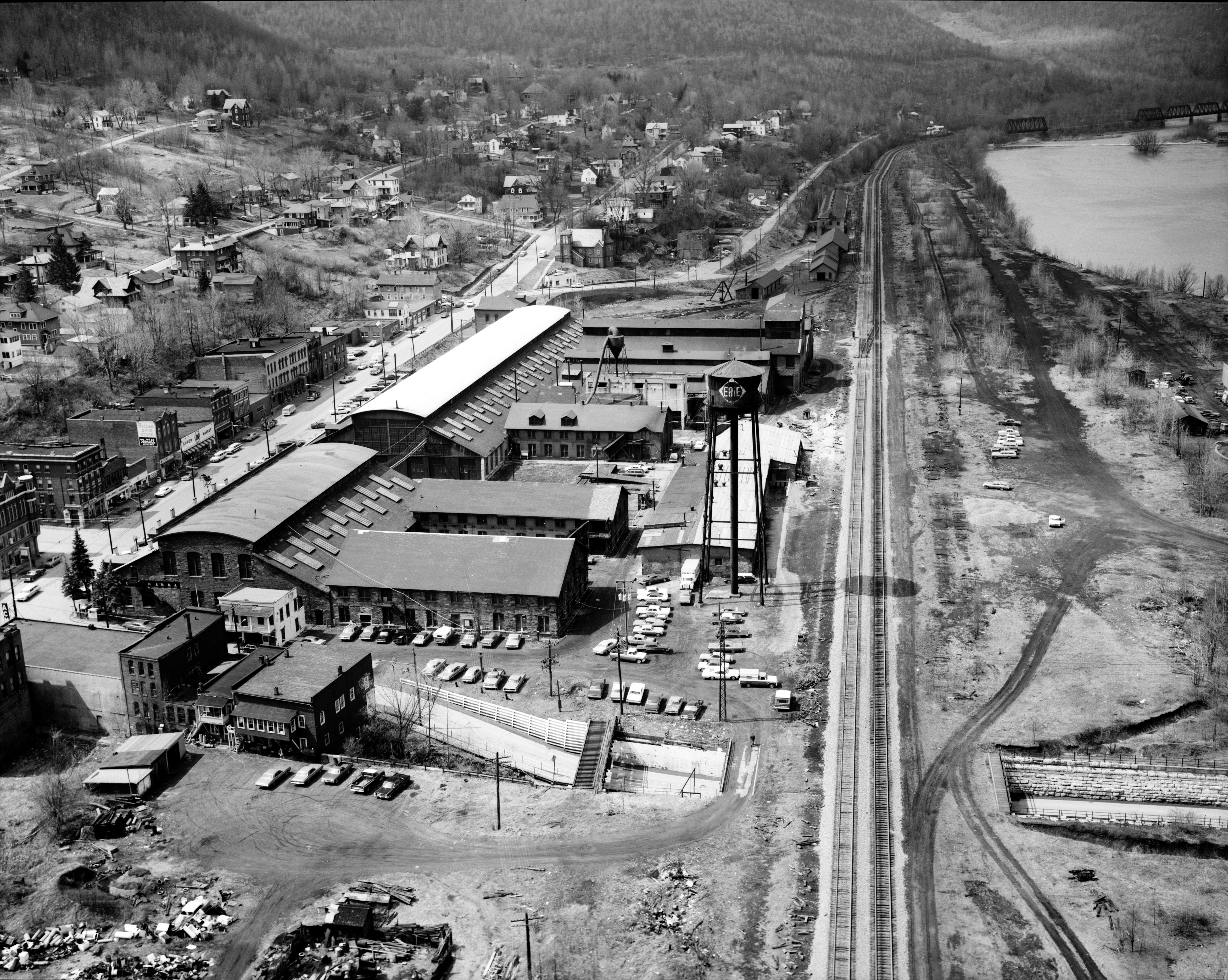 View of Susquehanna Repair Shops, Main & Drinker Streets, Susquehanna Depot, Pennsylvania. Built 1864-66 by the Erie Railway (later the Erie Railroad). View looking west; the Susquehanna River is on the right. To the left of the water tower are the carpentry and paint shops (1866). To their left, fronting Main Street, is the locomotive repair shop (1866); converted to paint shop in 1929. The larger building beyond the repair shop is the locomotive erecting shop ("long shop")(1866); converted to a coach shop in 1929. At the far end of the long shop, extending across to the right towards the main tracks, are the 1865 boiler shop, the 1900 boiler shop addition, and the 1865 blacksmith shop; all three of these buildings burned in 1975. The original roundhouse (1864) was located at the far end of the site; demolished 1929. All of the shops were closed by 1960; demolished 1982. Cropped photo.